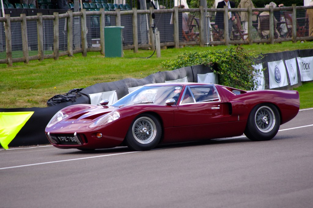 1968 Ford GT 40 Mk.III at Goodwood Revival 2012. This car was in the Beaulieu Motor Museum for three decades.